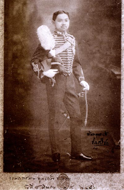 Photograph of Prince Prajadhipok of Sukhothau, in Royal Horse Artillery Uniform, "L" Battery, while a Sub-Lieutenant (Honorary Rank) at Aldershot, England, 1914.